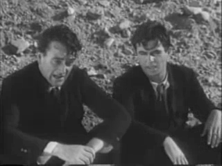 John Wayne and Noah Beery, Jr. in The Trail Beyond, a 1934 film by Robert N. Bradbury